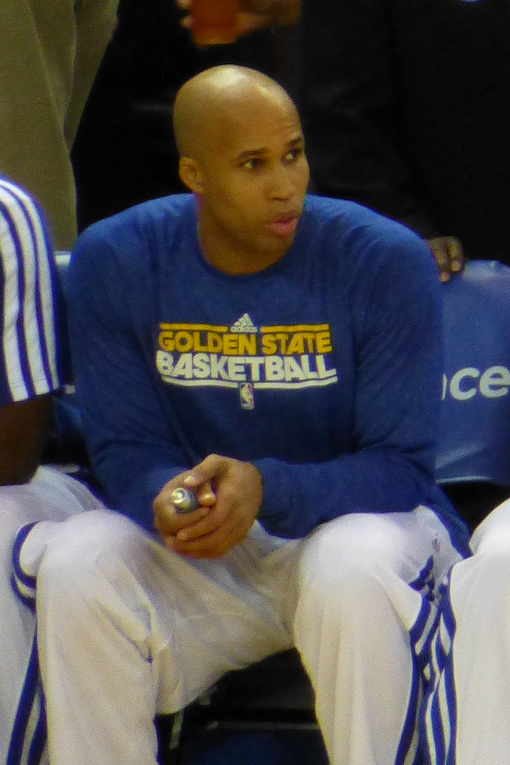 Richard Jefferson, Toronto Raptors at Golden State Warriors March 4, 2013